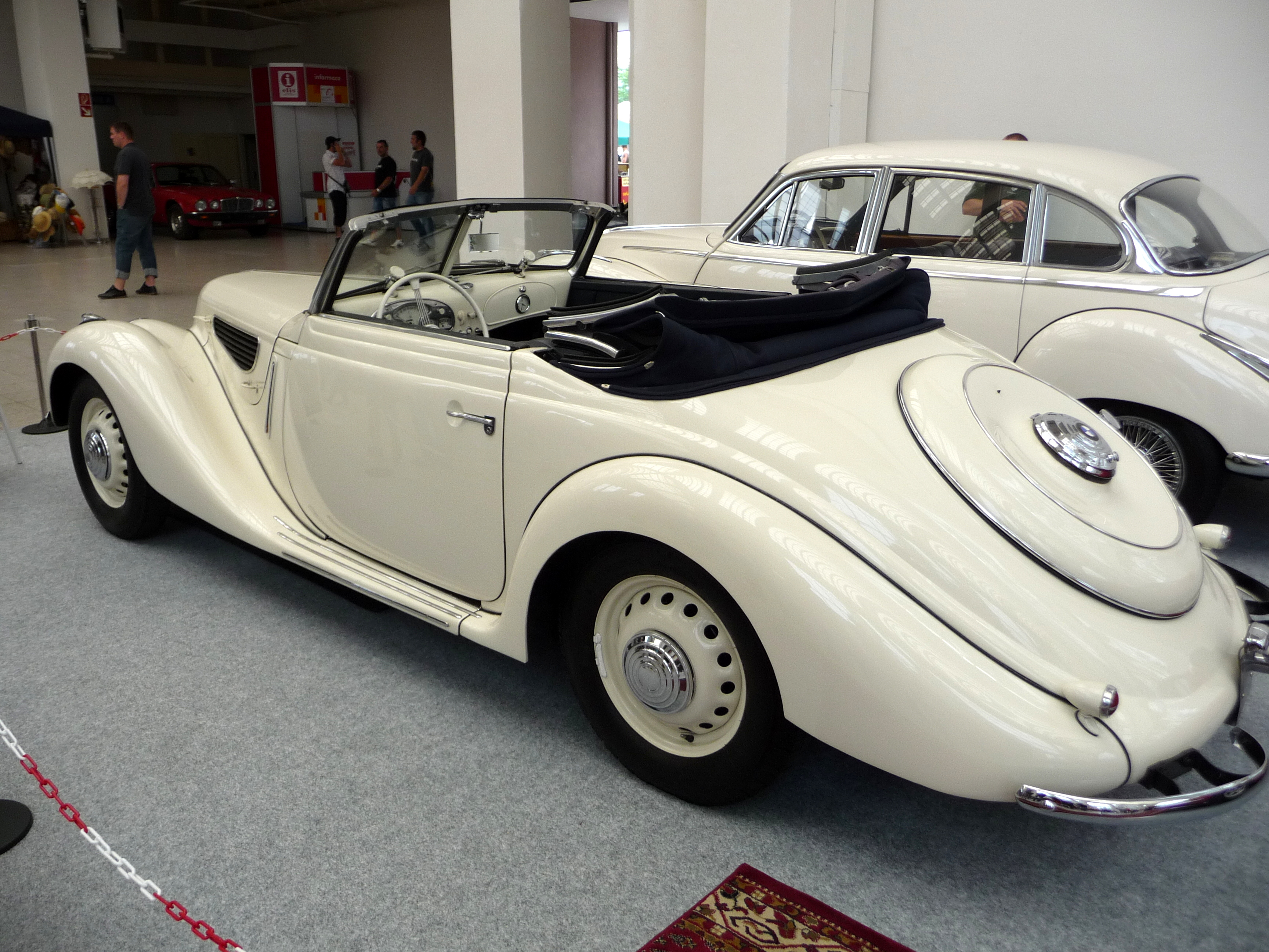 BMW 327 Cabrio, year 1939, Classic Show Brno 2011, The Brno Exhibition Grounds -10 -5 -3 -2 ◄ ► +2 +3 +5 +10